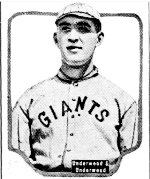 newspaper photo